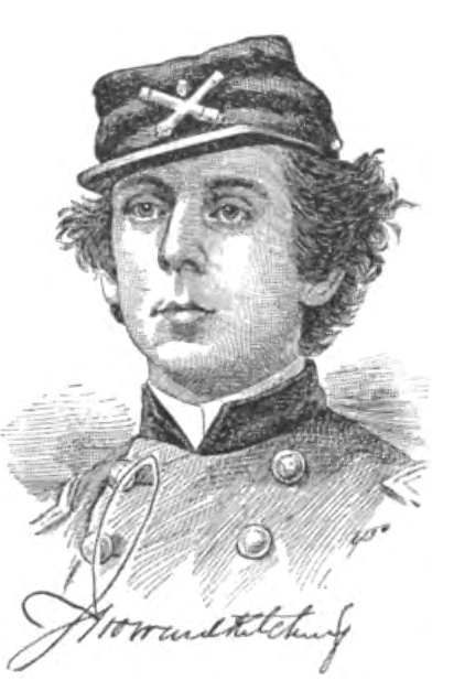 John Howard Kitching (1838–1865), often referred to as J. Howard Kitching, was an officer in the Union Army during the American Civil War. He served in the cavalry, artillery and infantry in the Army of the Potomac and Army of the Shenandoah. He received a posthumous brevet promotion to brigadier general after a mortal wounding at the battle of Cedar Creek.